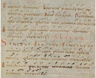 Sanctus